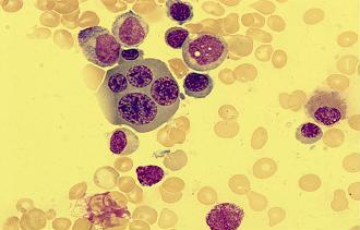 Cells. Used on the Russian Wikipedia article about Myelodysplastic syndrome.